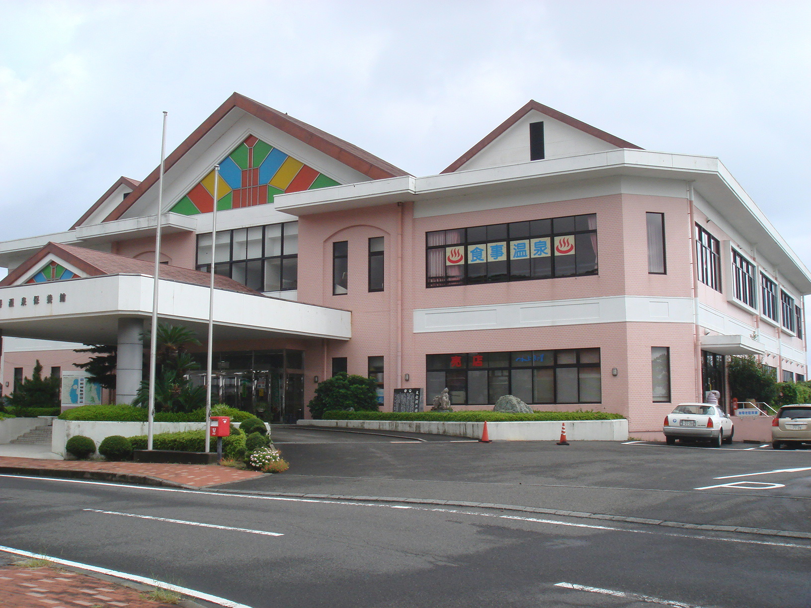 Michinoeki-Kiire (Kagoshima, Kagoshima)